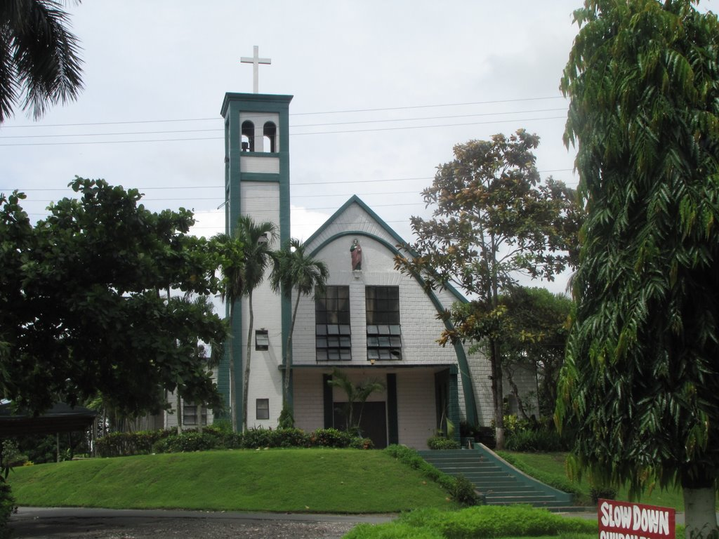 St.Joseph Parish Church at Sitio Casmicejos Barangay Canlubang in Calamba, Laguna.